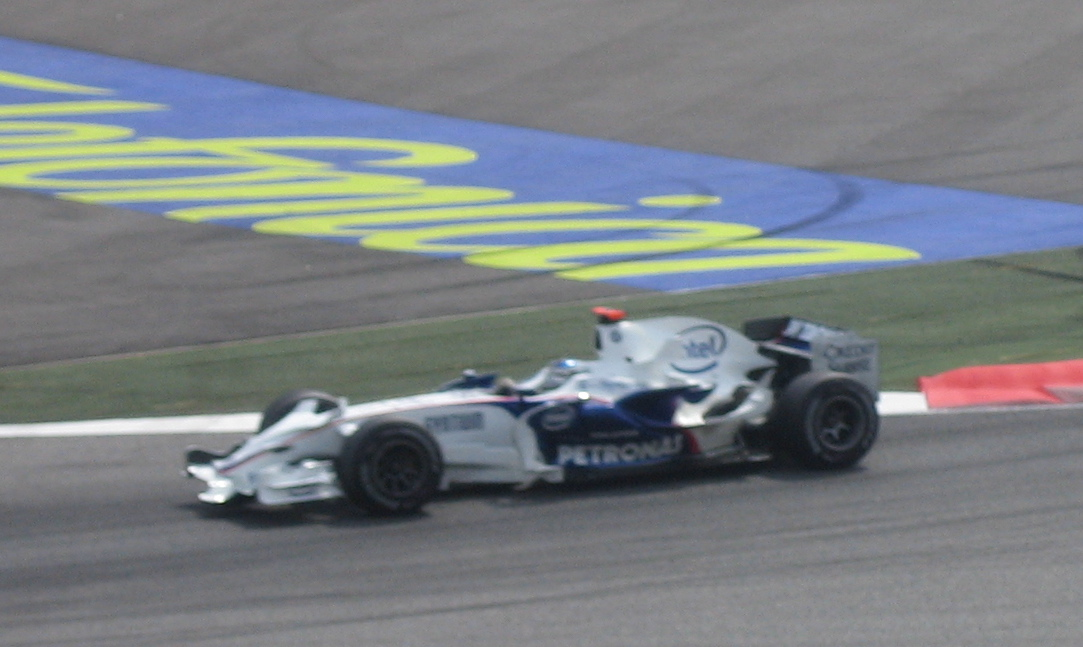 Nick Heidfeld driving for BMW Sauber at the 2008 Spanish Grand Prix.